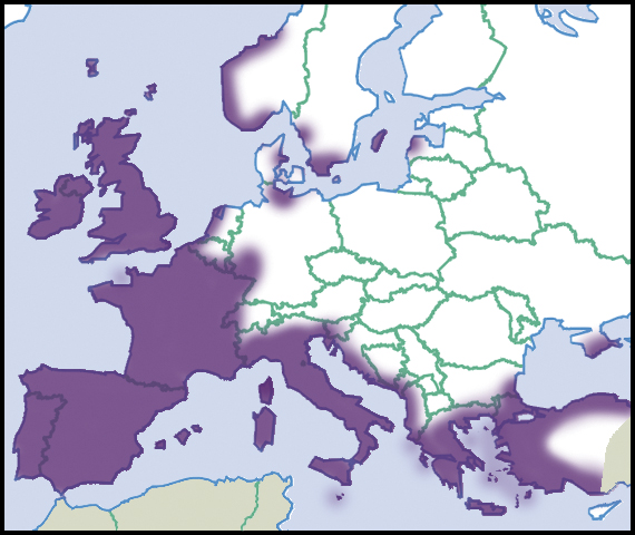 Lauria cylindracea (Da Costa, 1778). Distributional range in Europe, scientific state of knowledge of 2012. Source description in English. Light colour indicated rare occurrences or regions where the species could eventually be expected to occur. Dark colour indicated relatively reliable occurrences, as well as regions where the species was expected to occur, and where the species was not known to be extremely rare. Dark colour indications were not necessarily based on published records. Species summary in AnimalBase